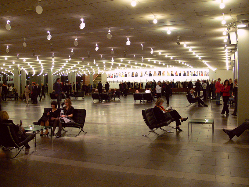 Foyer des Nationaltheaters Mannheim